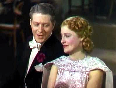 Cropped screenshot of Nelson Eddy and Jeanette MacDonald from the trailer for the film Sweethearts